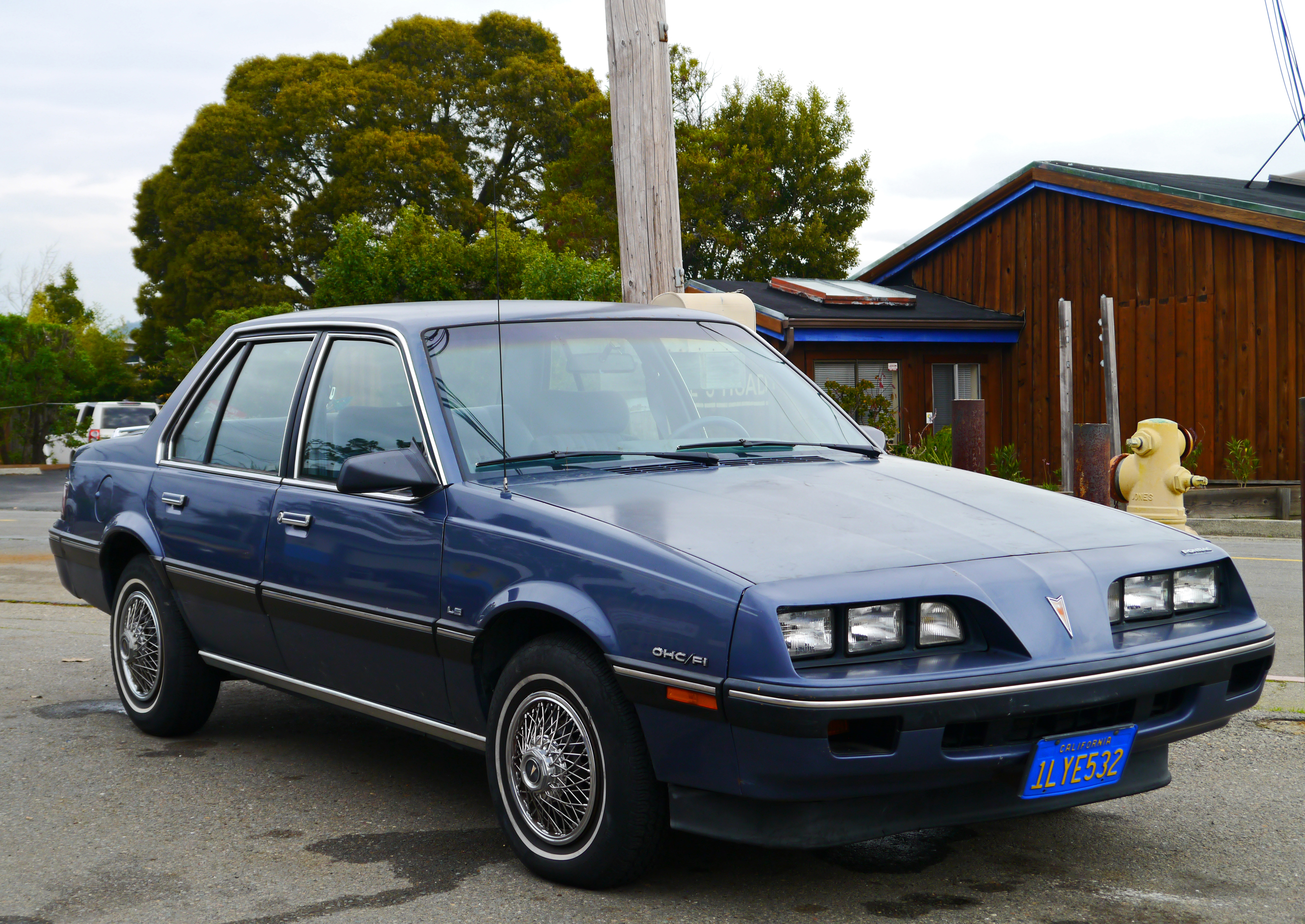 1984 Pontiac 2000 Sunbird LE. 4-cylinder 1.8L OHC/FI engine (110 kW; 150 bhp) - This engine was popular, and more powerful than many V6 engines in competing brands.